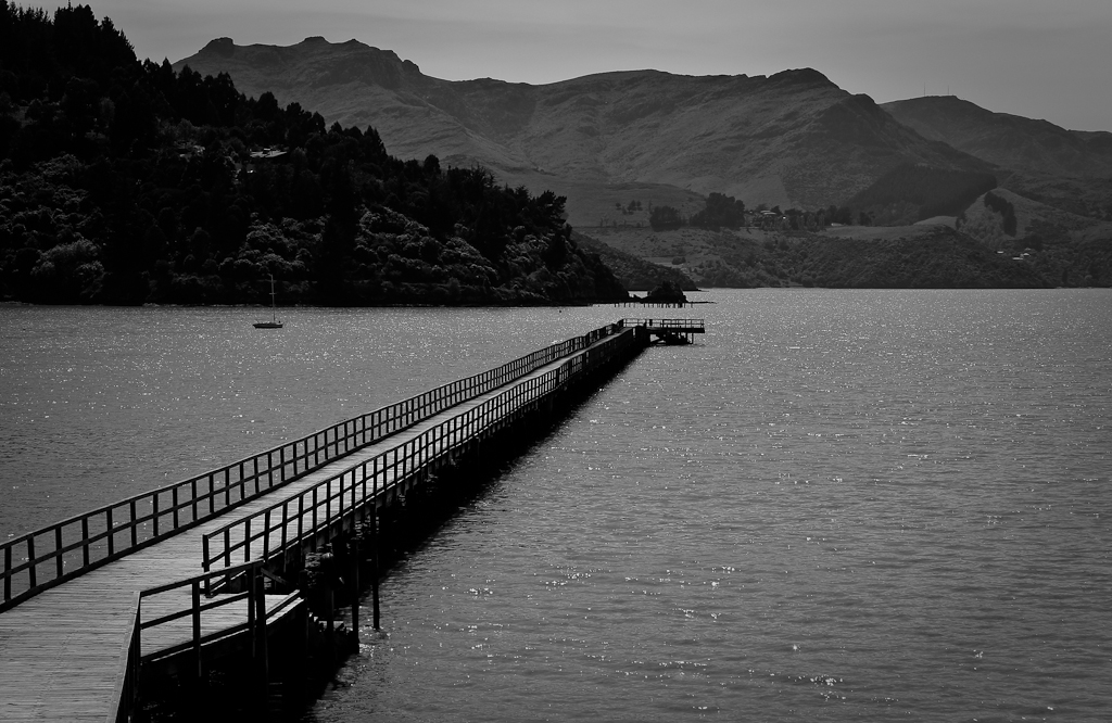 B&w photo of Governors Bay Jetty.